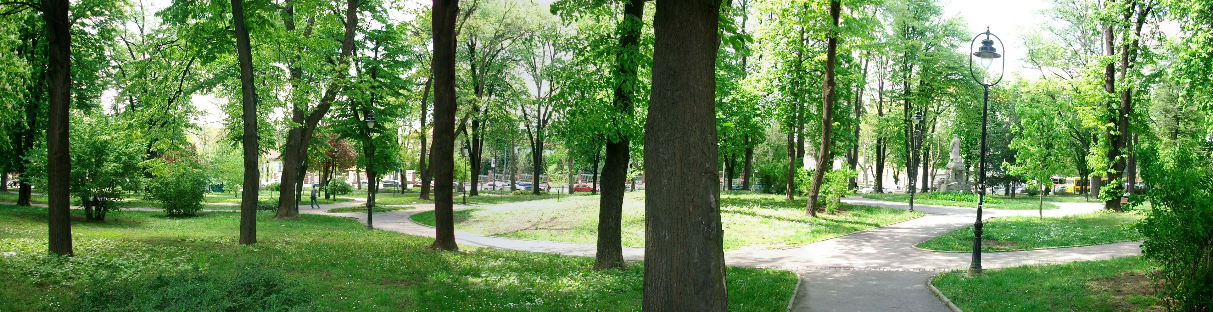 Panoramic view of Kardjordjev park